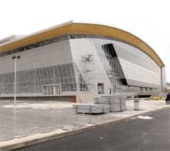 Macedonian sport arena Boris Trajkovski